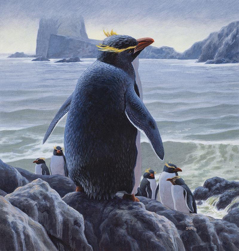 Depiction of the extinct Chatham penguin or Warham's penguin (Eudyptes warhami) by Sean Murtha; commissioned to accompany the description of the species in 2019